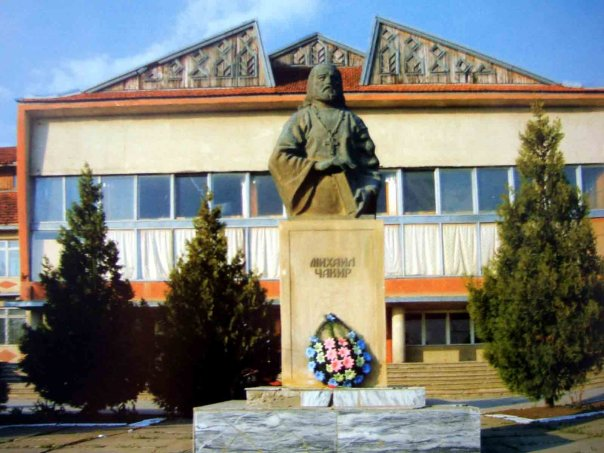 Teatr M. cakir (Mikhail Chakir National Gagauz Theatre), Ceadir Lunga, Moldova